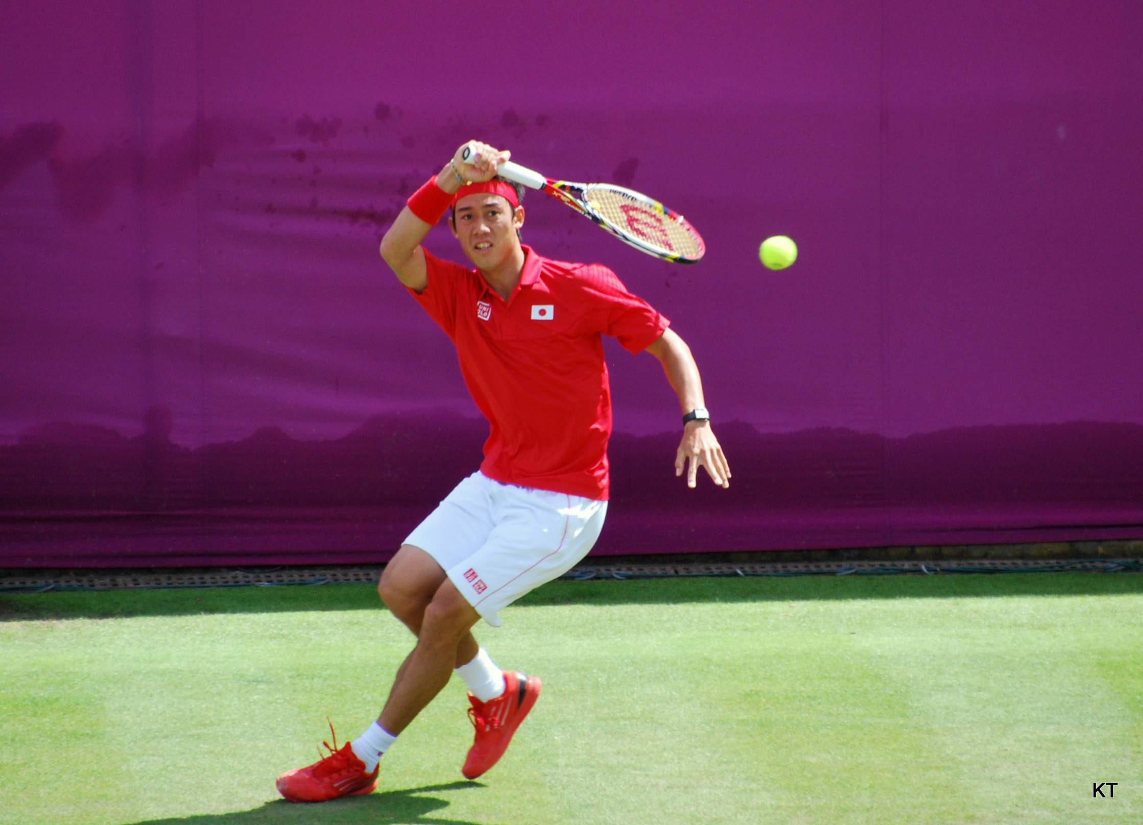 Kei Nishikori at the London 2012 Olympics, on the day 2 (first round) of the tennis at Wimbledon.